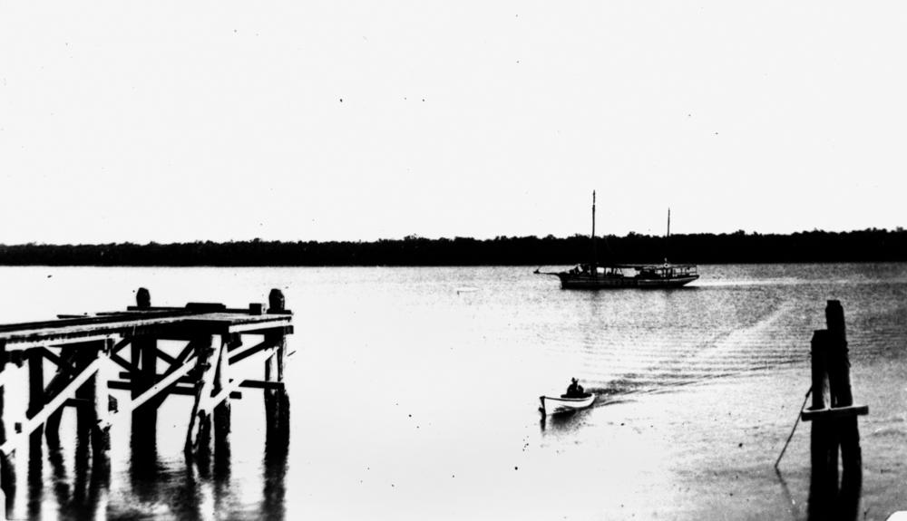 Melbidir II(ship). Melbidir II anchored off Karumba near the mouth of the Norman River on the Gulf of Carpentaria in Northern Queensland. Karumba is named after an Aboriginal tirbe which inhabited this area. Previously in the 1860's the township was known as Kimberley. There had been a proposal for an overseas cable from Java . (Description supplied with photograph).